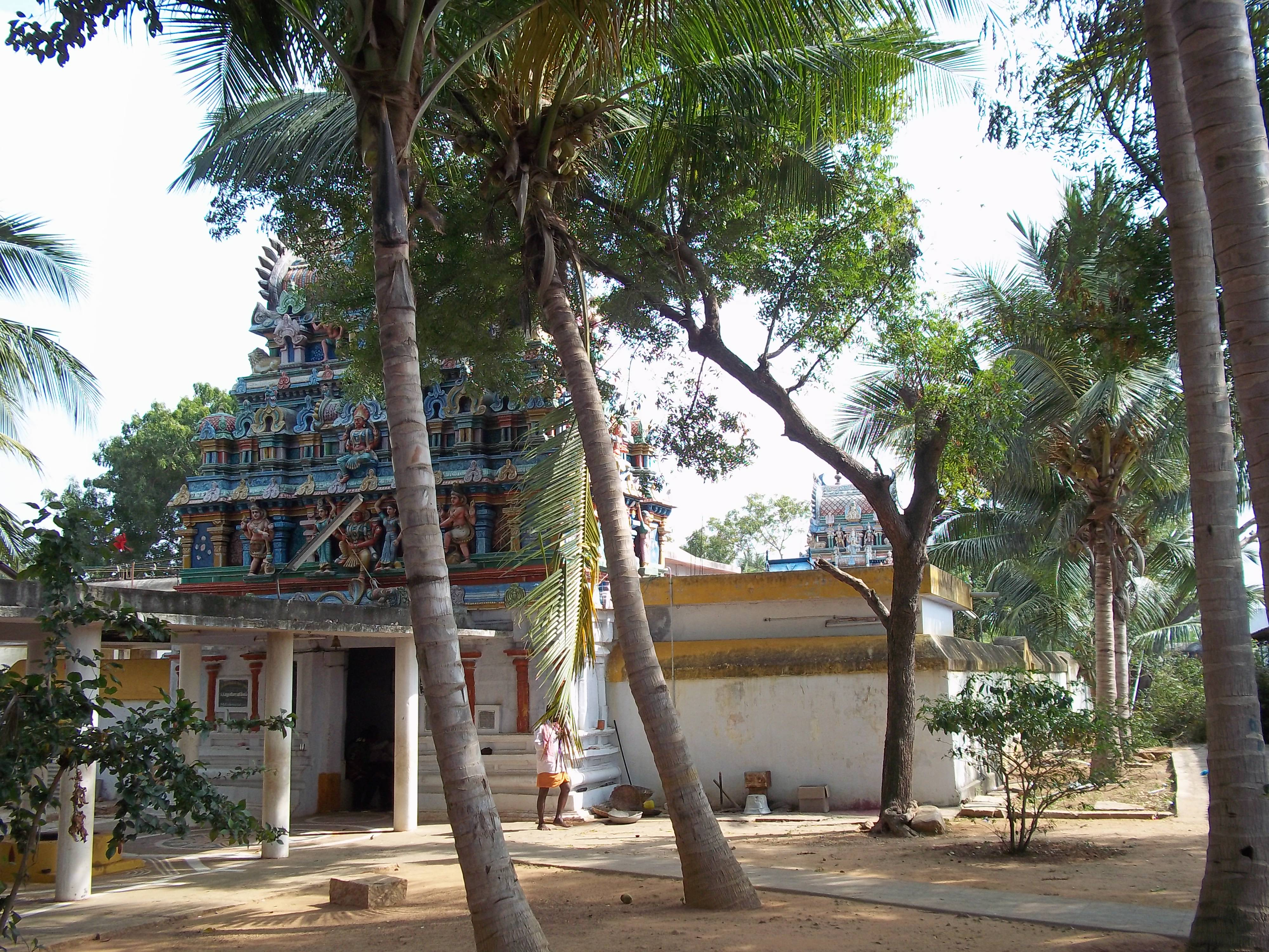 vallam agowri amman kovil